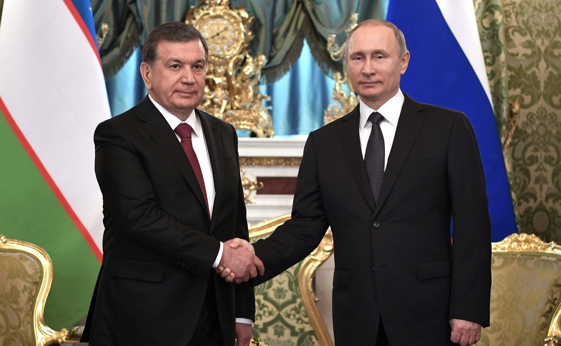 Vladimir Putin with Shavkat Mirziyoyev.